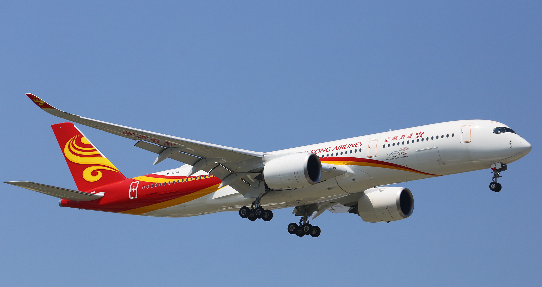 Airbus A350 of Hong Kong Airlines at Taiwan Taoyuan International Airport